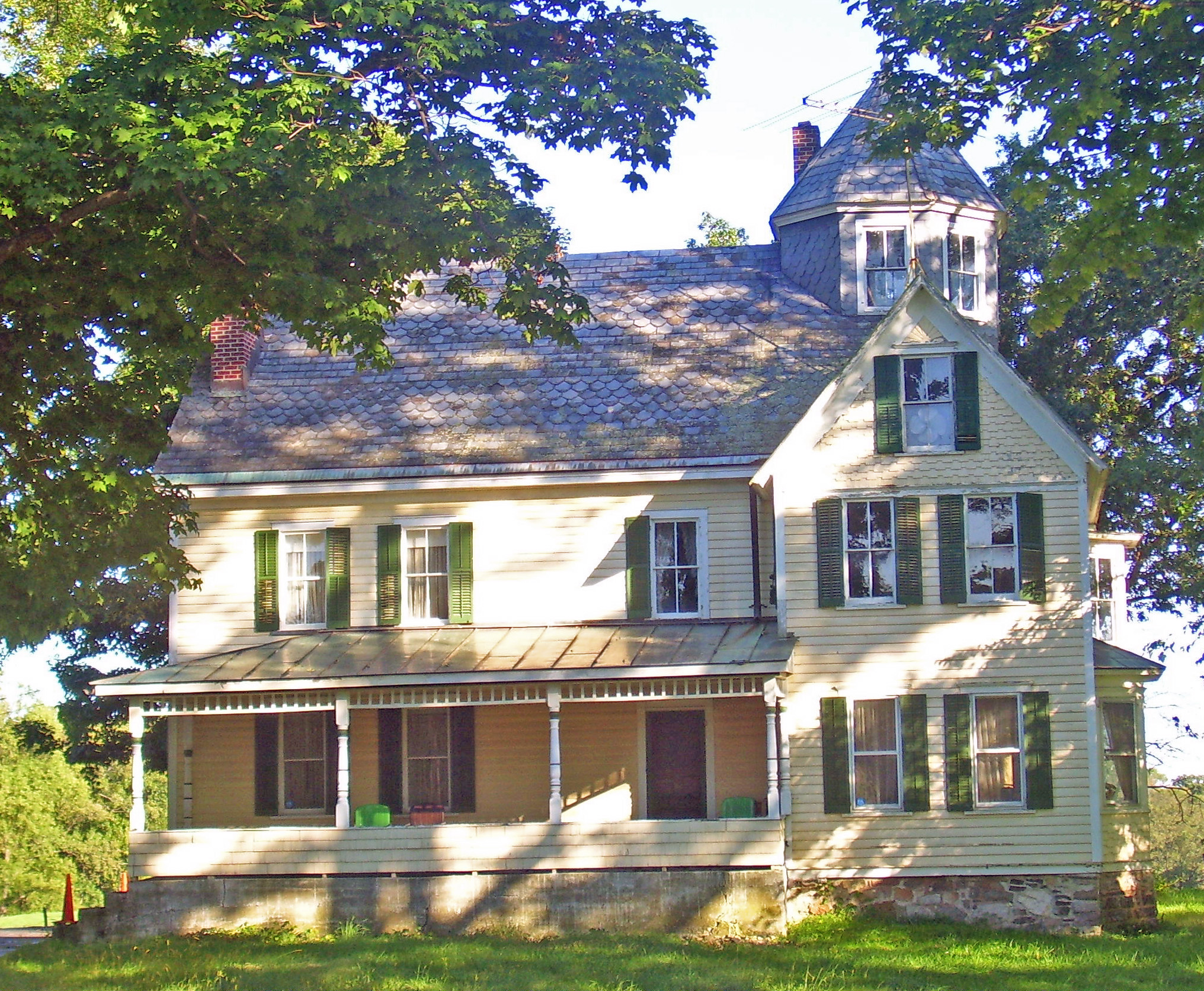 Peachcroft, near Walden, NY, USA